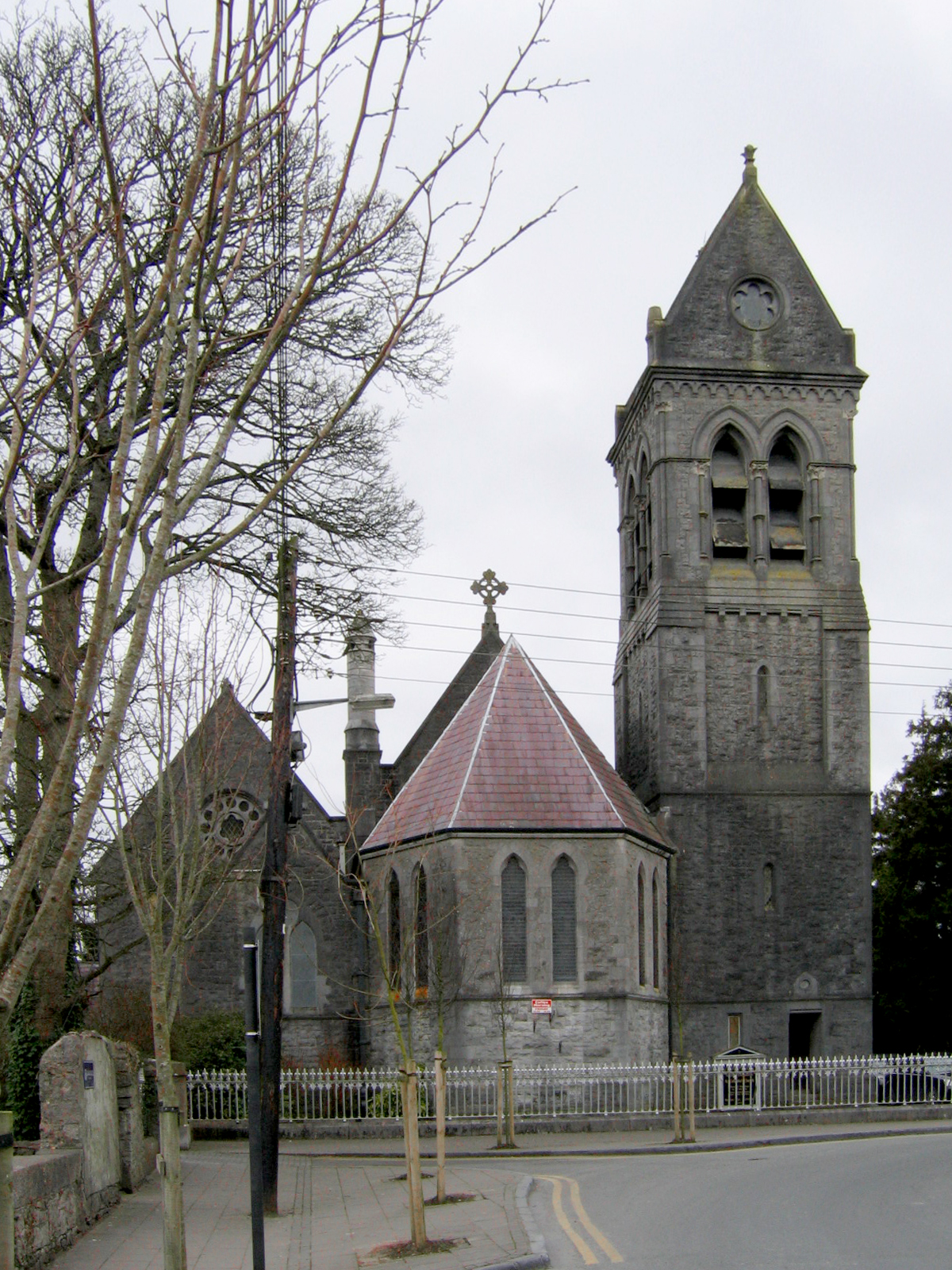 St. Columba's Church in Ennis, County Clare, Republic of Ireland.